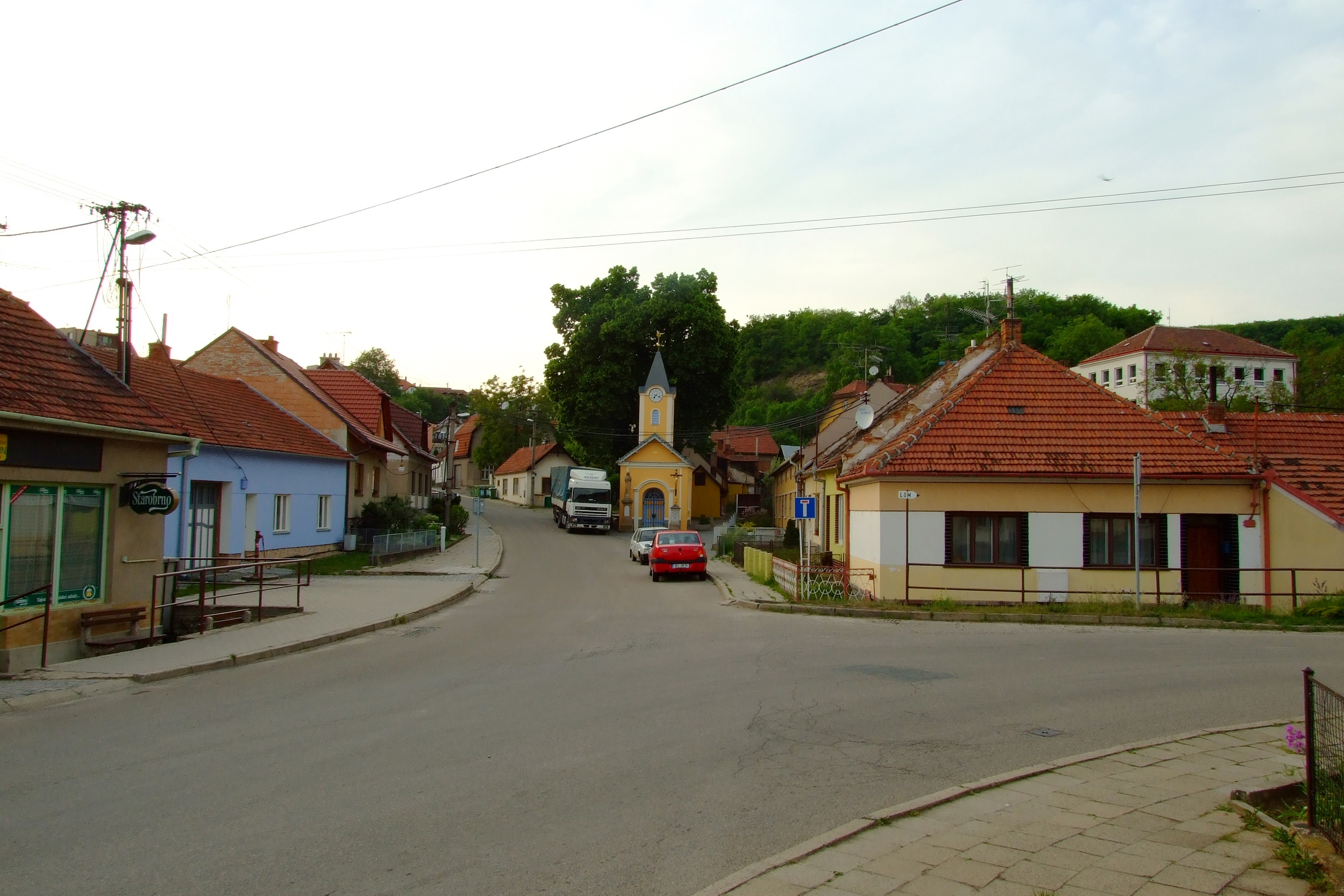 The old part of village of Mokrá